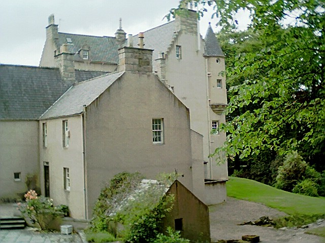 Licklyhead Castle, Auchleven A chateau-maison designed by James Bell c.1626 for the Leslies. See more history at